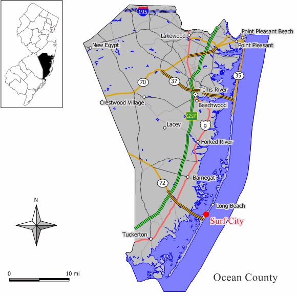 Source: Jim Irwin Original work by Jim Irwin, December 2005.